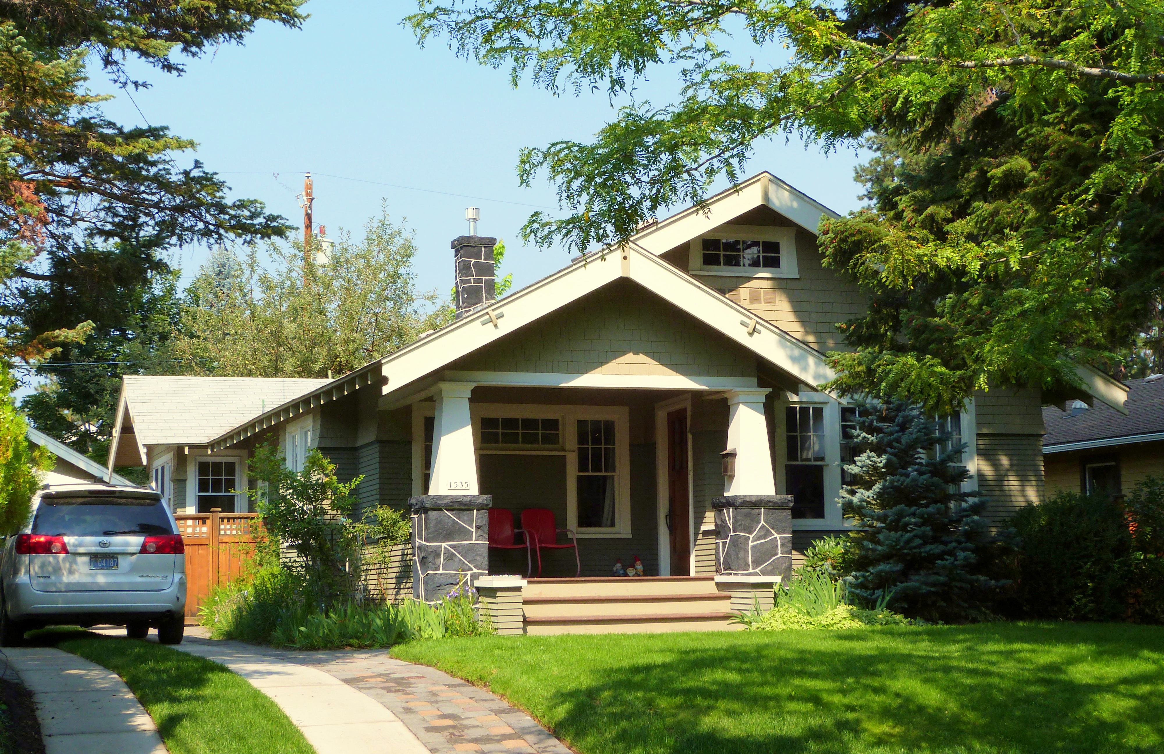 The historic Simpson E. Jones House (built 1924), located at 1535 Northwest Awbrey Road in Bend, Oregon, United States, is listed on the US National Register of Historic Places.